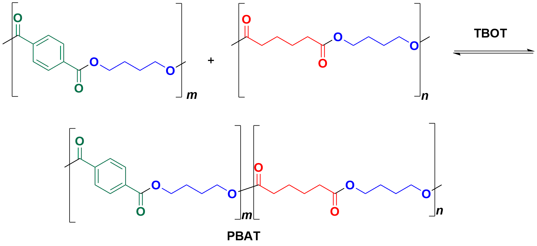 PBAT synthesis step 2